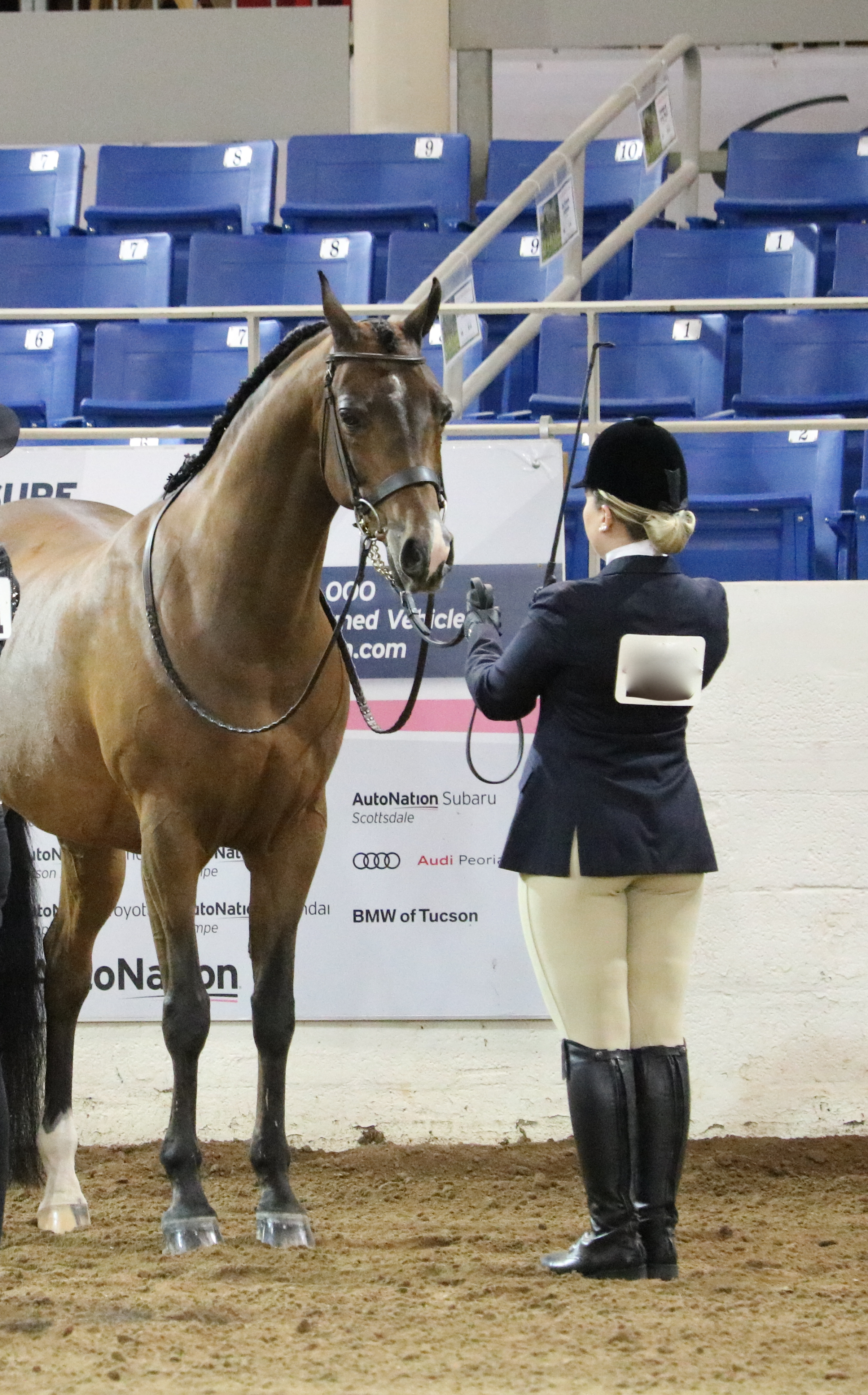 Adult Showmanship class at Scottsdale Arabian Show, 2017. Handler showing English in-hand style